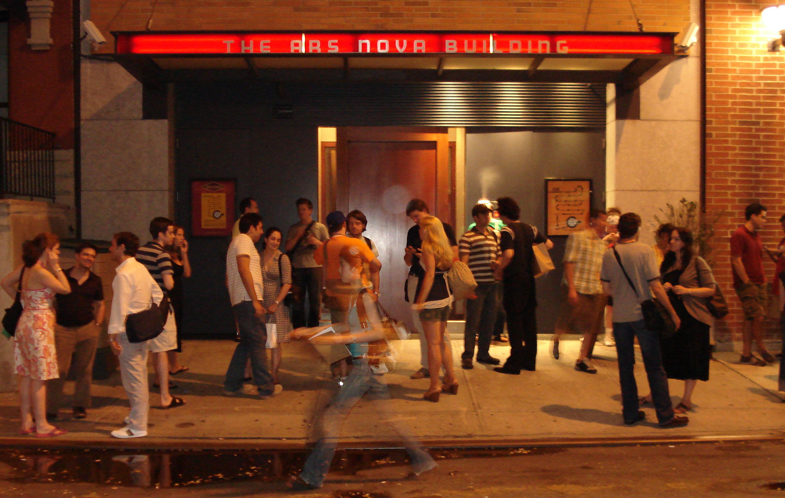 Theatre goers leaving the Off-Off-Broadway Ars Nova theatre in Hell's Kitchen, Manhattan, New York City. Copyright 2007 Jeffrey O. Gustafson, released to Wikimedia Commons under the GFDL and CC-BY-SA-2.0.